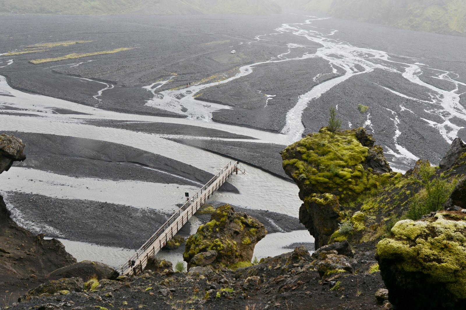 The bridge over the Crosa river. Iceland Thorsmork area. The bridge is on map but it does not span the whole river.